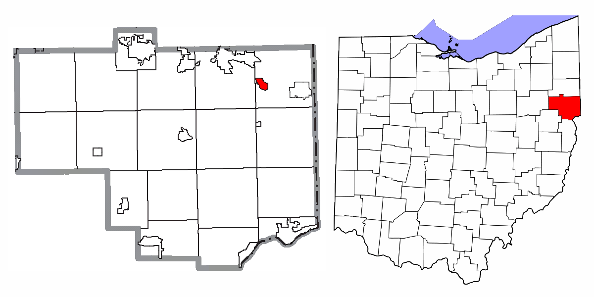 Map highlighting Village of New Waterford, Columbiana County, Ohio.